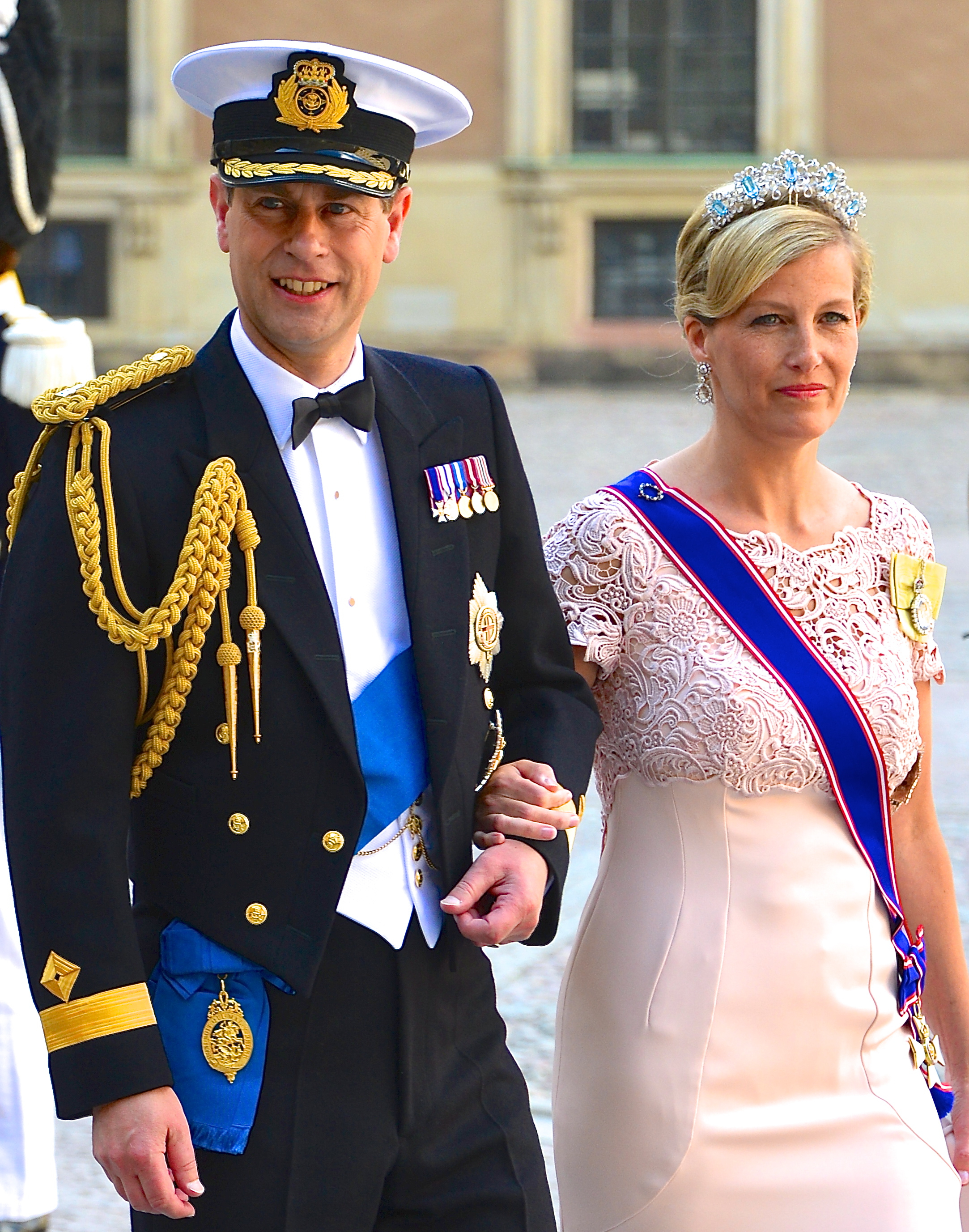 Prince Edward, Earl of Wessex and Sophie, Countess of Wessex on the way to the castle church at the Royal Palace in Stockholm before the wedding between Princess Madeleine and Christopher O'Neill June 8, 2013.